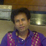 Prof. Rajani Kannepali Kanth, fellow Harvard University in 2012